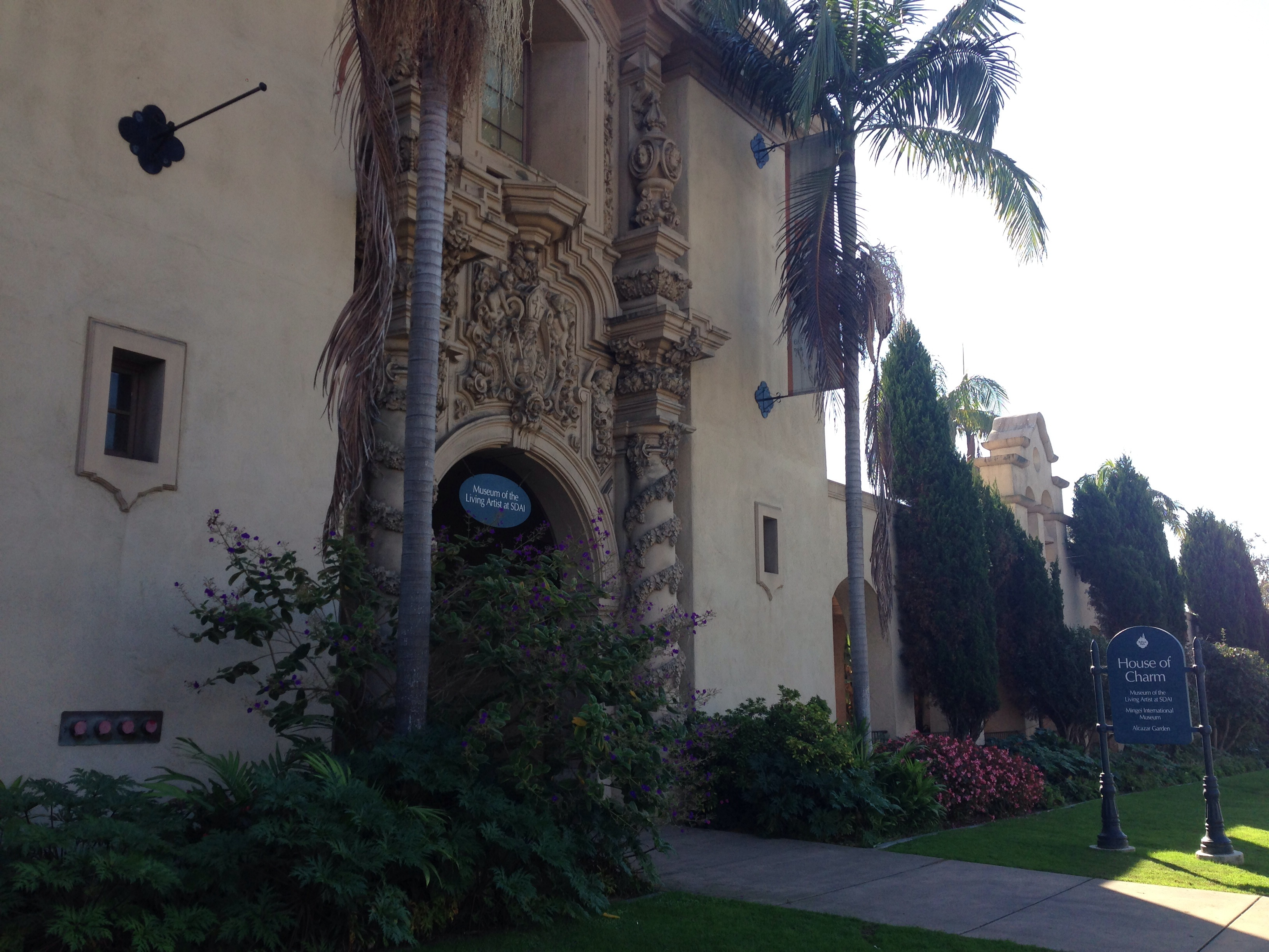 Side of house of charms